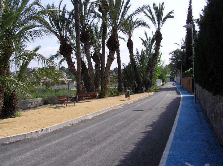 Rincón de las Delicias. Se encuentra ubicado a la entrada a la urbanización torreña del Parque de las Palmeras.